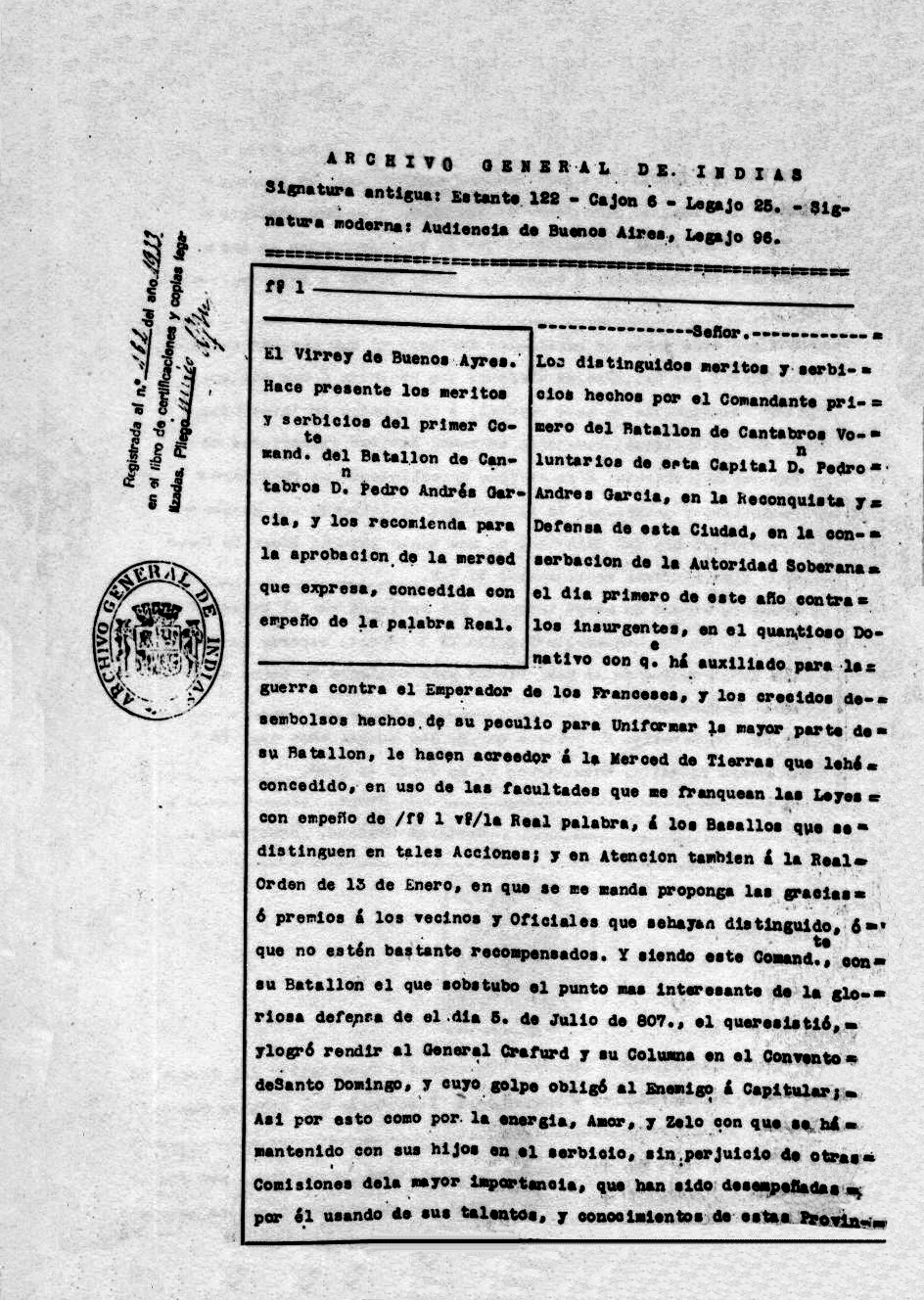 Primera hoja de la merced de tierras concedida al Coronel Pedro Andrés García a pedido del Virrey Santiago de Liniers, por los servicios prestados a la corona de España.